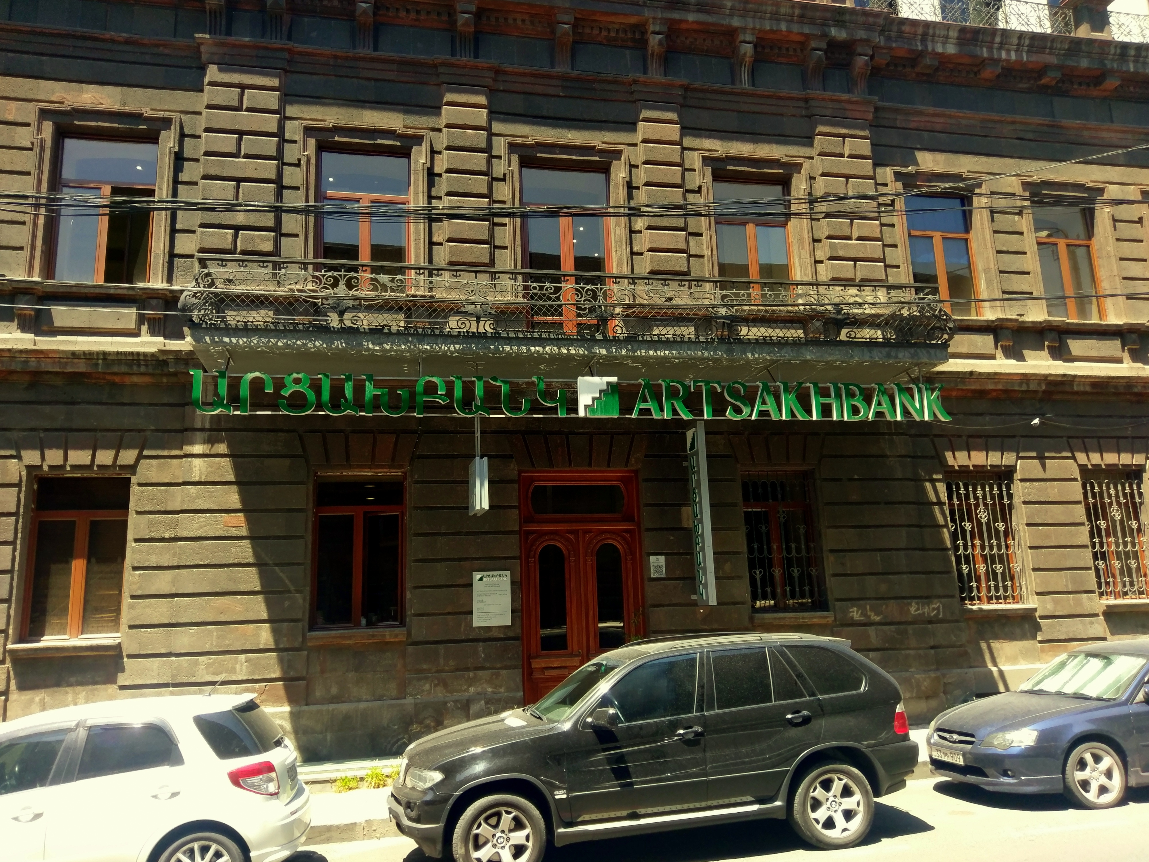 Artsakhbank, Hanrapetutyan Street